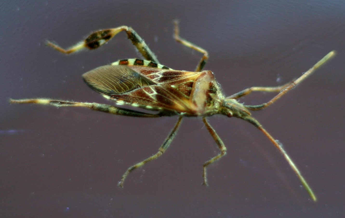 A western conifer seed bug, Leptoglossus occidentalis. Captured in my kitchen, and photographed with a Canon Digital Rebel, EF 50/1.8 and an extension tube. Cropped from the original (available on Flickr, see below) and slightly contrast-enhanced. Identified by the Wikipedia reference desk; confirmed by Prof. Carl Schaefer of the University of Connecticut Ecology and Evolutionary Biology department.